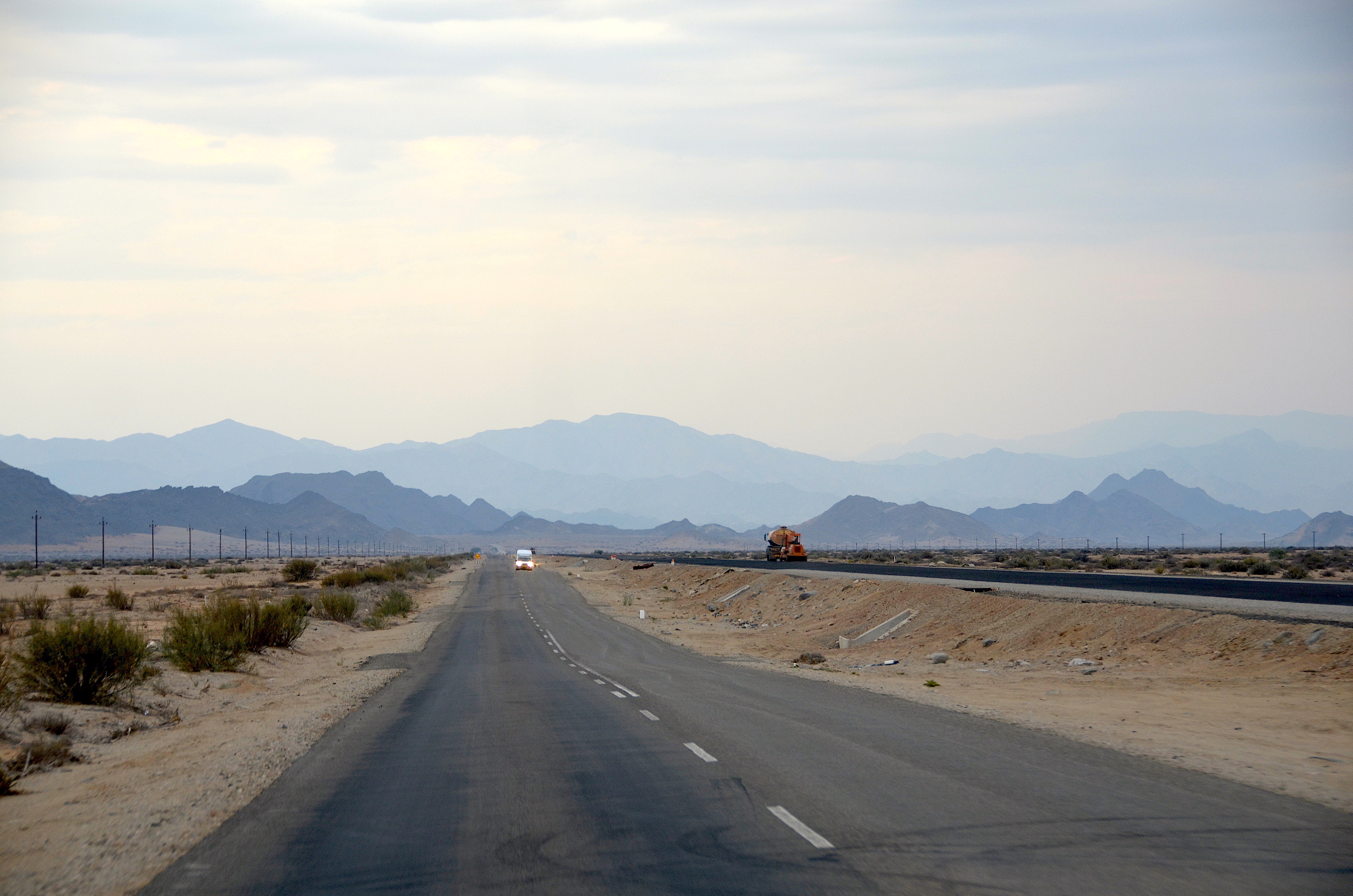 Main road C13 near Rosh Pinah in Namibia (2017)